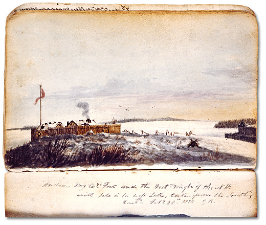 Hudson’s Bay Company and Northwest Company Forts at Île-à-la-Crosse, February 28, 1820 Watercolour by George Back.A different version of the image is available online at Library and Archives Canada under MIKAN numbers 2837997 (en) and 2898203 (fr). From a sketchbook kept by Midshipman George Back, a member of the Franklin Overland Expedition in the period 1819-1822. For details, see [1].